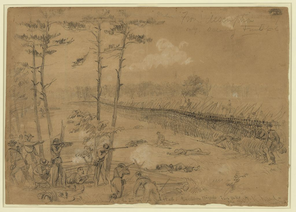 Bayonet charge of the 2nd reg. Col. Hall. Excelsior Brigade. Fair Oaks June 1862. Advancing battle line meets sharp shooters in woods. 1 drawing on tan paper: pencil and Chinese white ; 25.3 x 36.3 cm. (sheet). Published in: Harper's Weekly, August 16, 1862.